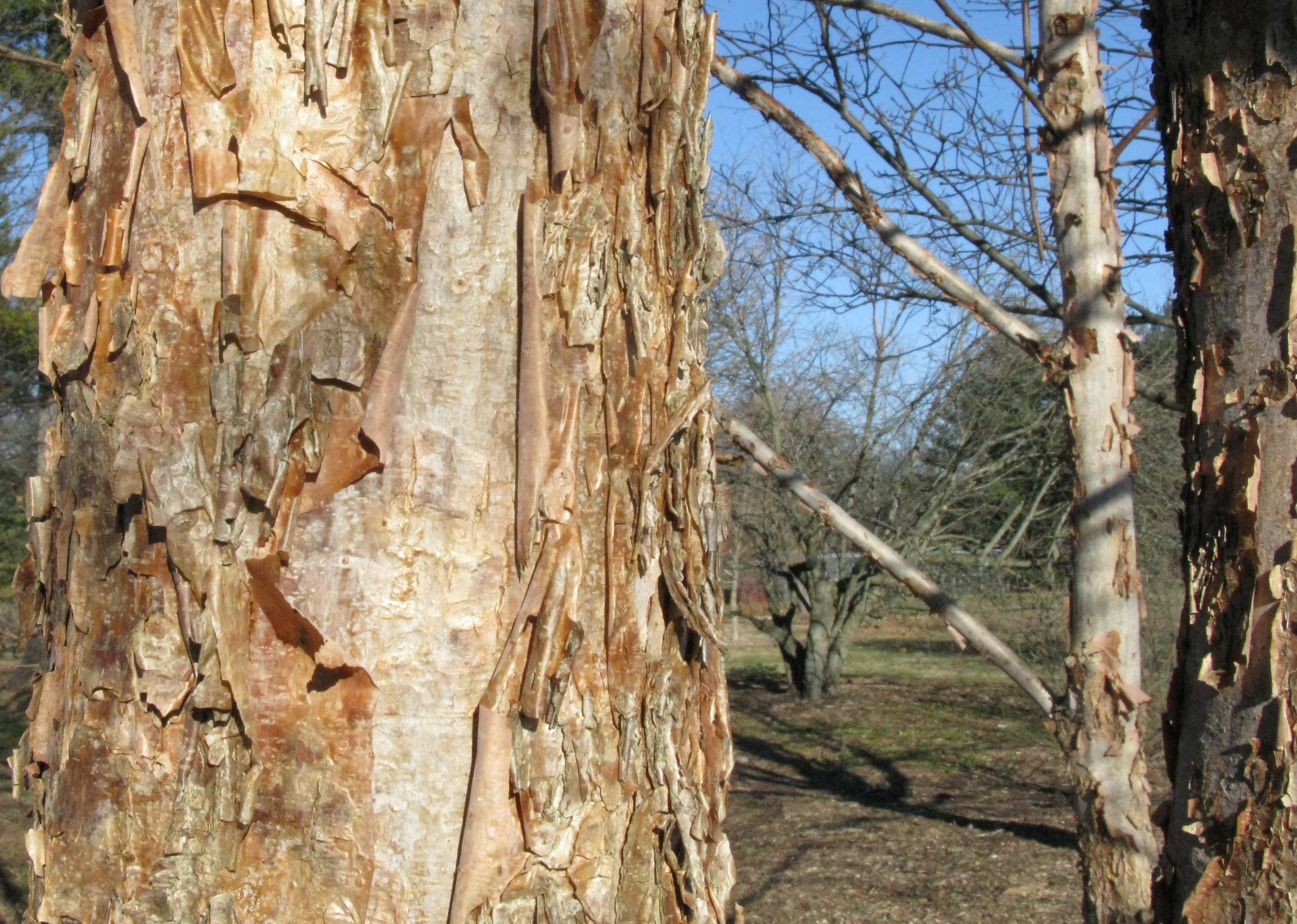 Corylus fargesii bark, cultivated, Morris Arboretum, Philadelphia, Pennsylvania